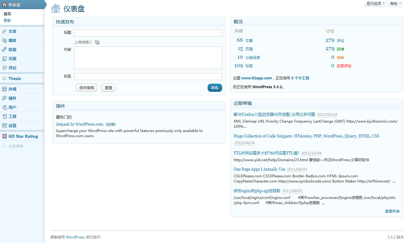 Screenshot of Wordpress 3.3.2 interface, taken myself.